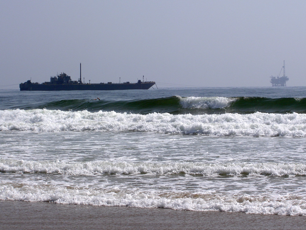 Platform Holly, an oil platform owned by Venoco, and an oil barge - off the shore of Ellwood Beach, Goleta, California.